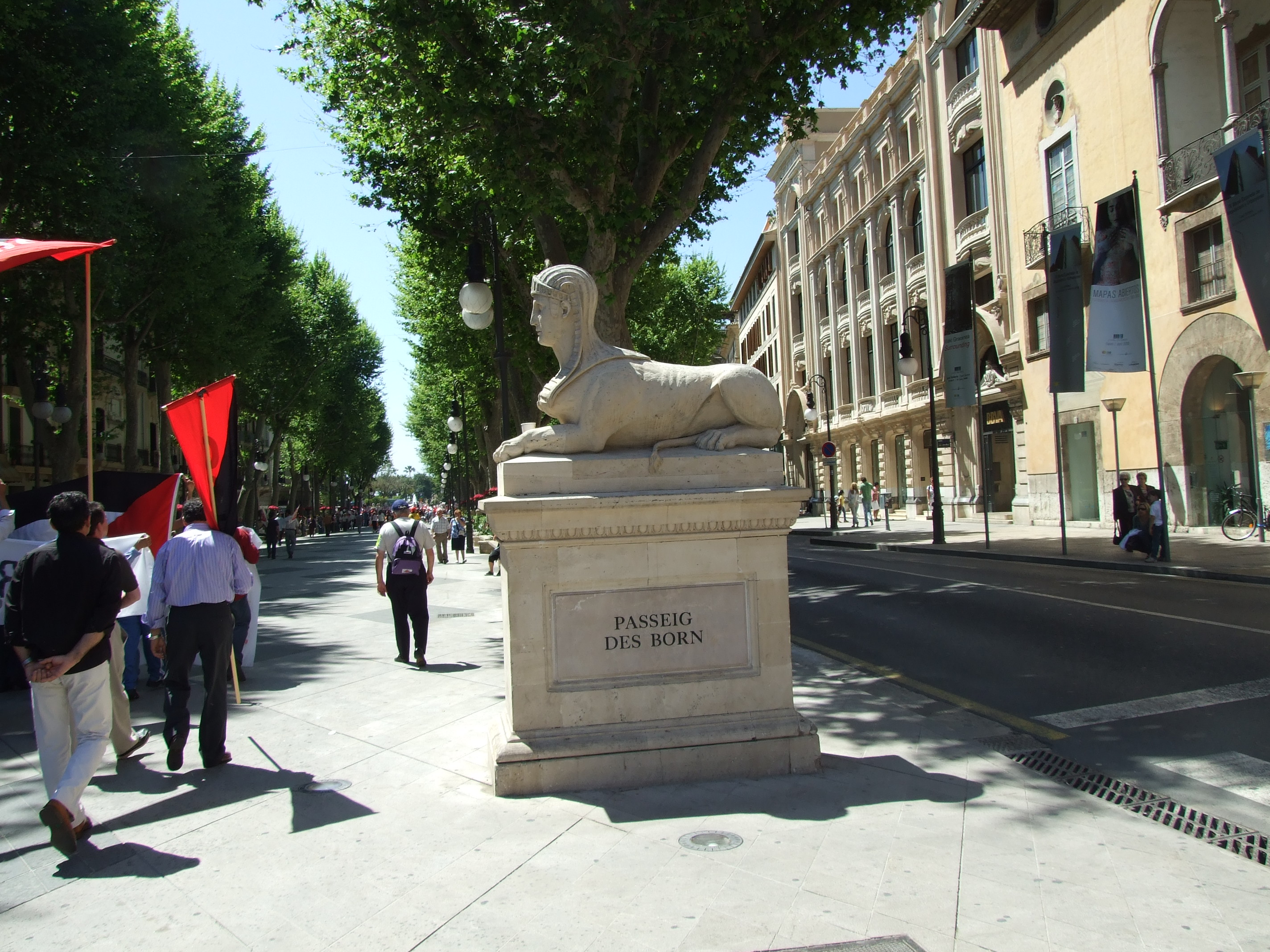 Statue of Sphinx at the Paseo del Born, Palma (Mallorca). These statues are popularly known as “Les Lleones des Born” [The lionesses of Born].